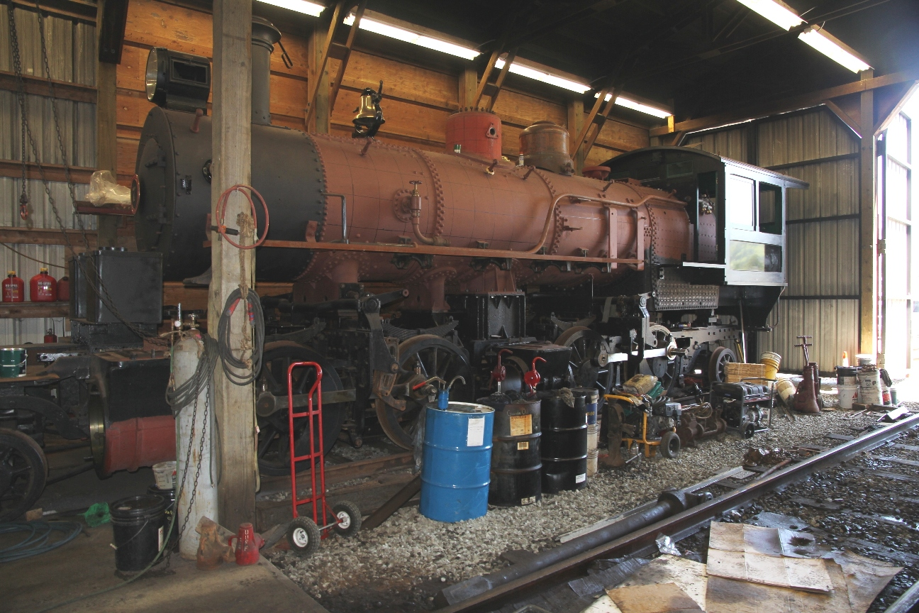 Skookum being rebuilt in OCSR shop, Garibaldi, Ore.